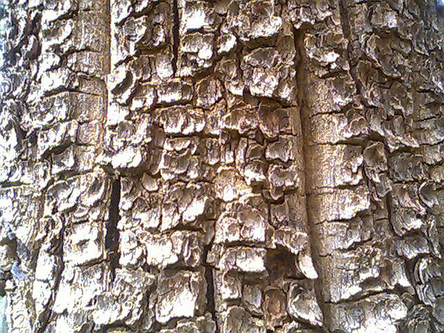 Bark of Pterocarpus santalinus tree species growing South Indian forest.